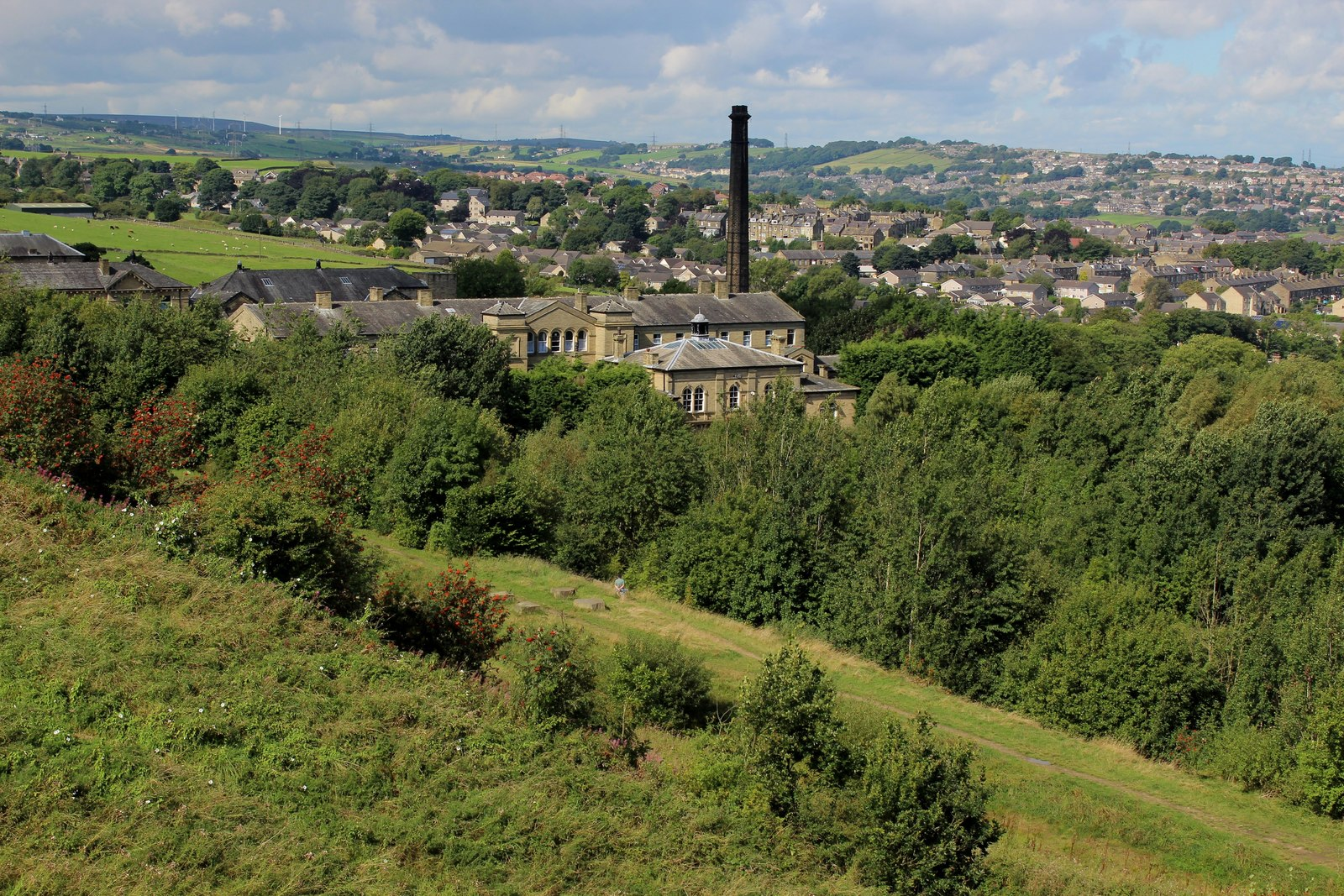 Former Thornton View Hospital